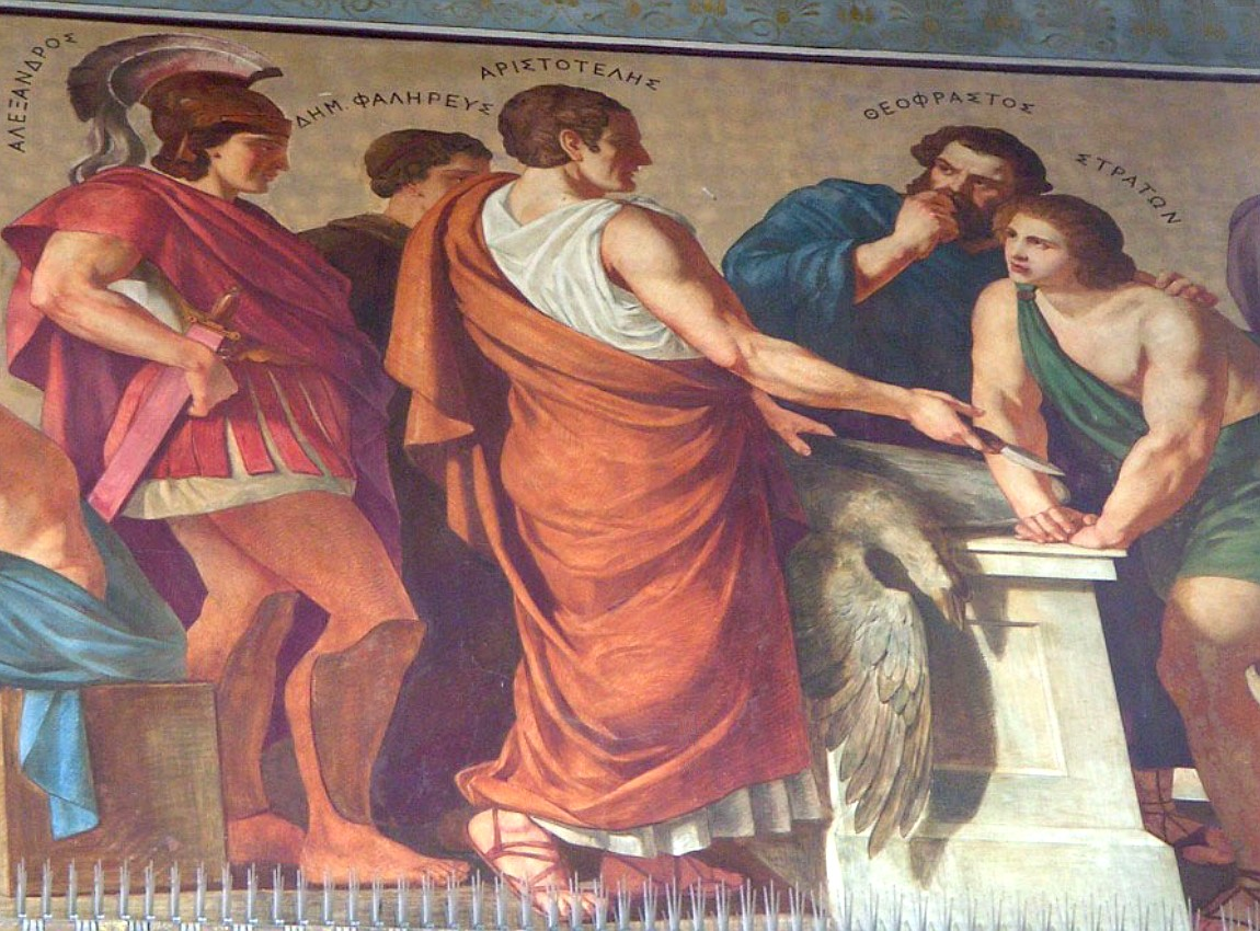 Detail of the right-hand facade fresco, showing Aristotle and His Disciples. National and Kapodistrian University of Athens.